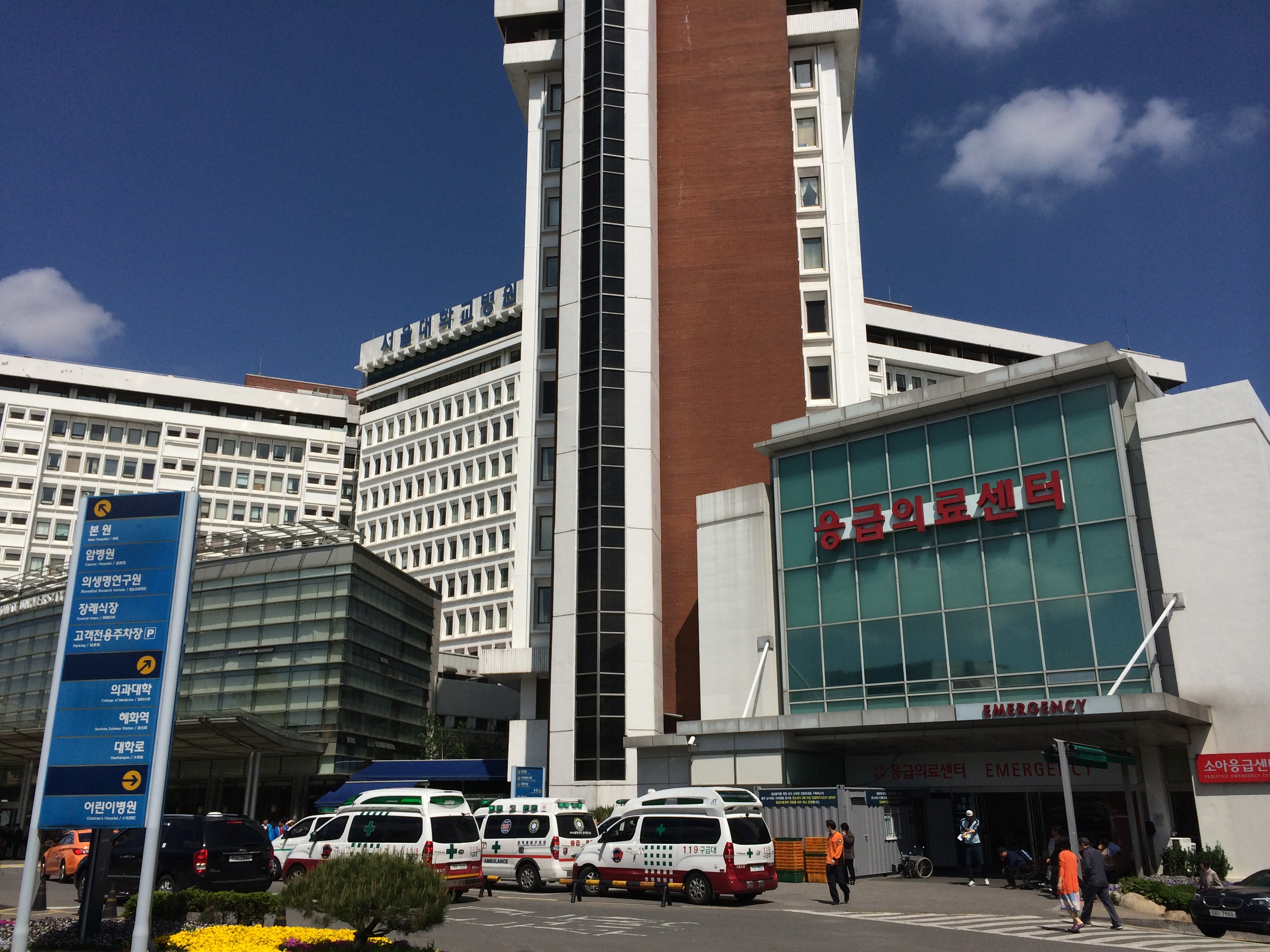 Emergency department of Seoul National University Hospital, South Korea.